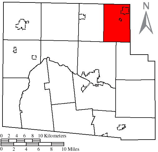 Made by the US Census and modified by myself to highlight the township